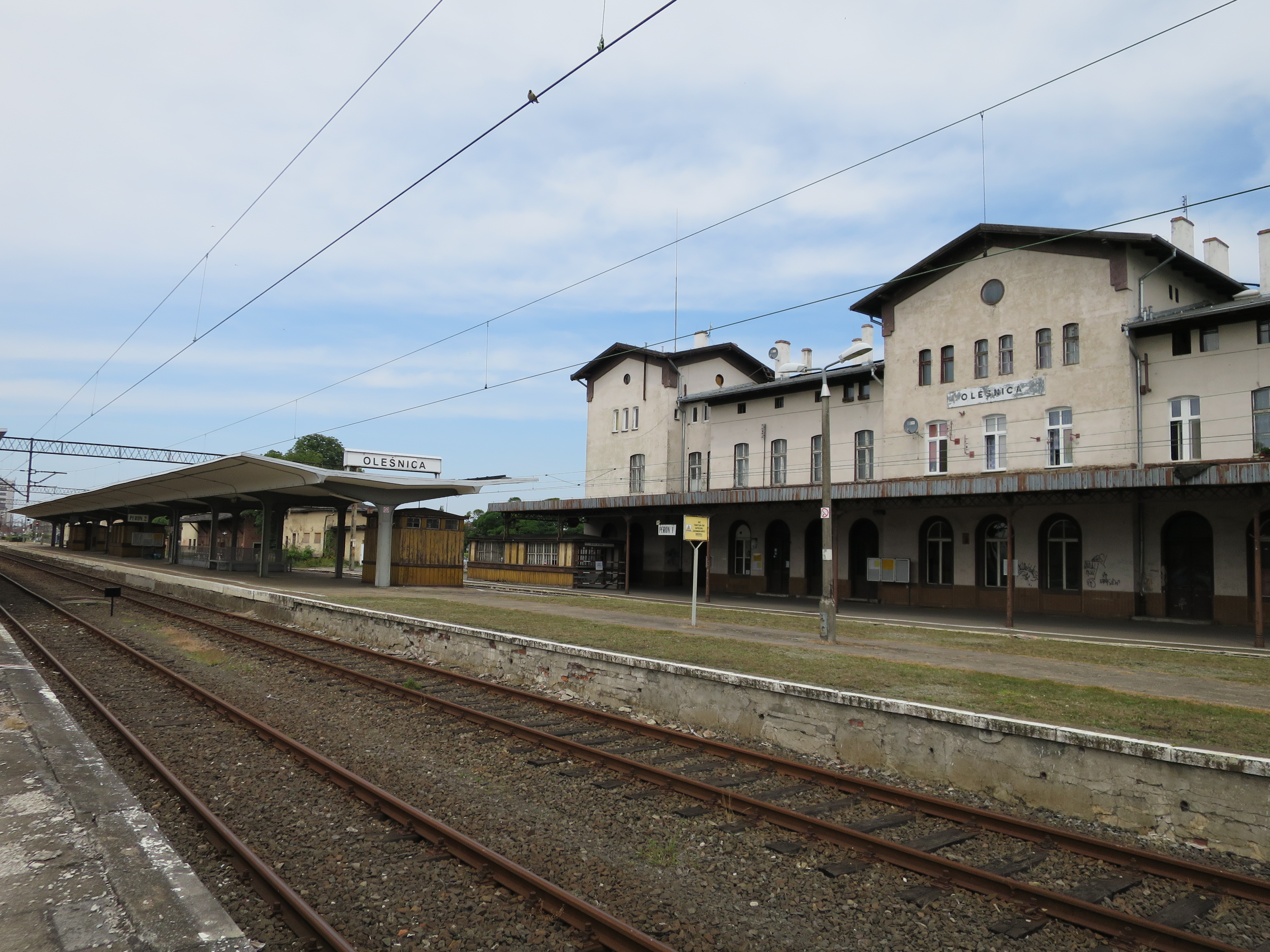 Dworzec w Oleśnicy This photo was taken during Railway Wikiexpedition 2015 set up by Wikimedia Polska Association in cooperation with Fundacja Grupy PKP. You can see all photographs in category Wikiekspedycja kolejowa 2015.